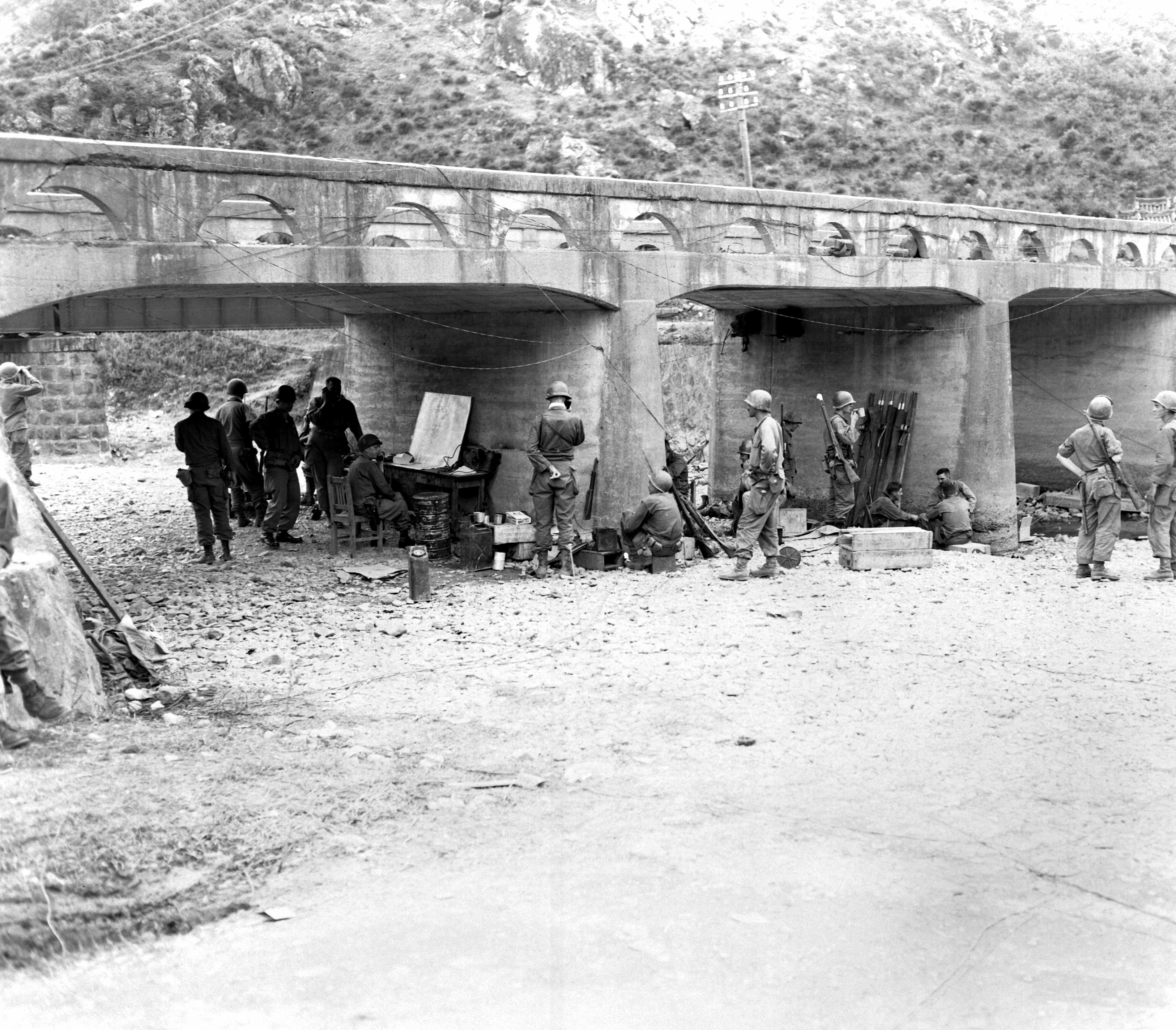 WAR IN KOREA: Men of the 27th Inf Regt set up a CP under a bridge near the city of Human, Korea. NARA FILE#: 111-SC-347755